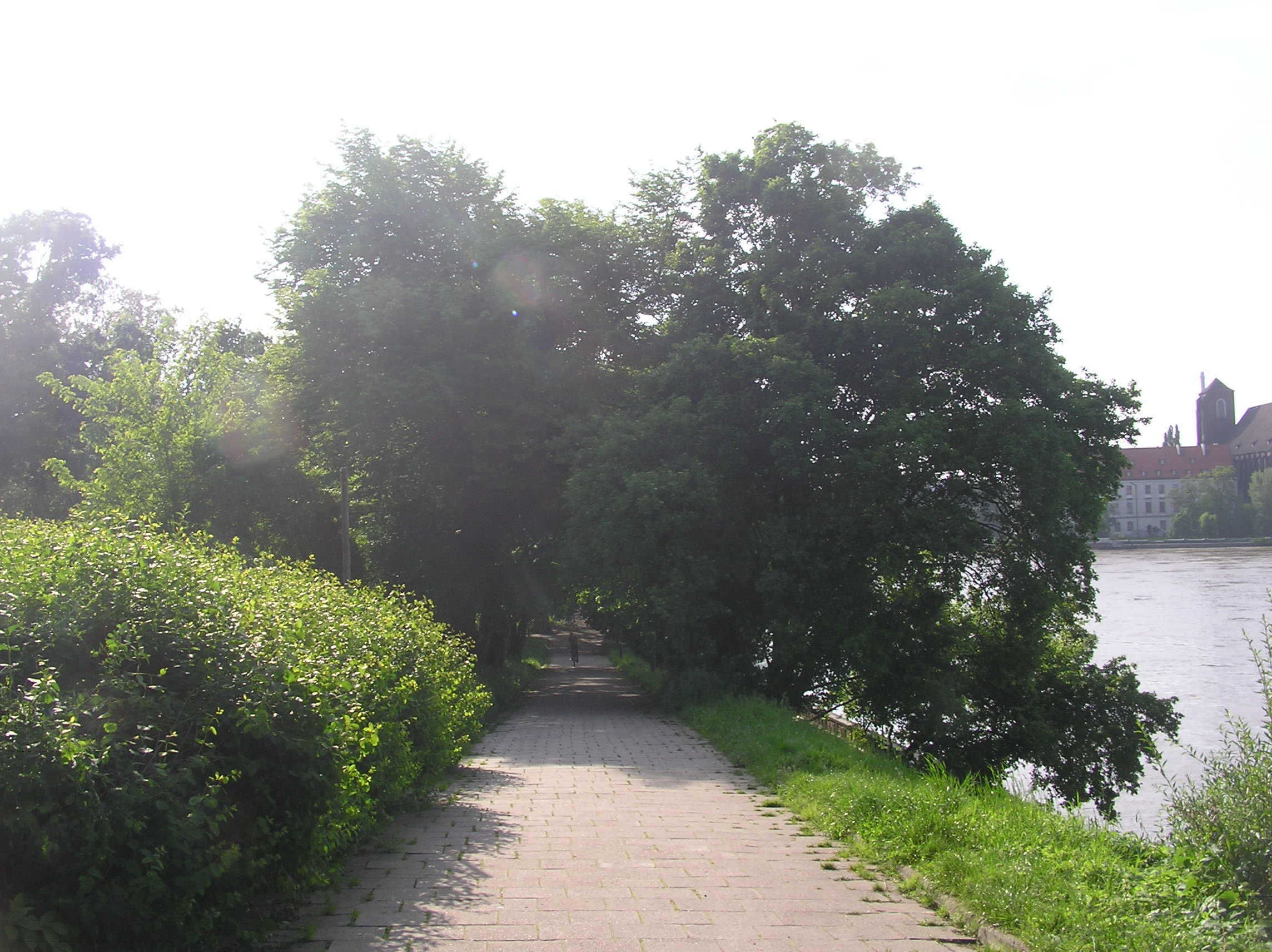 Wrocław, Polish Hill